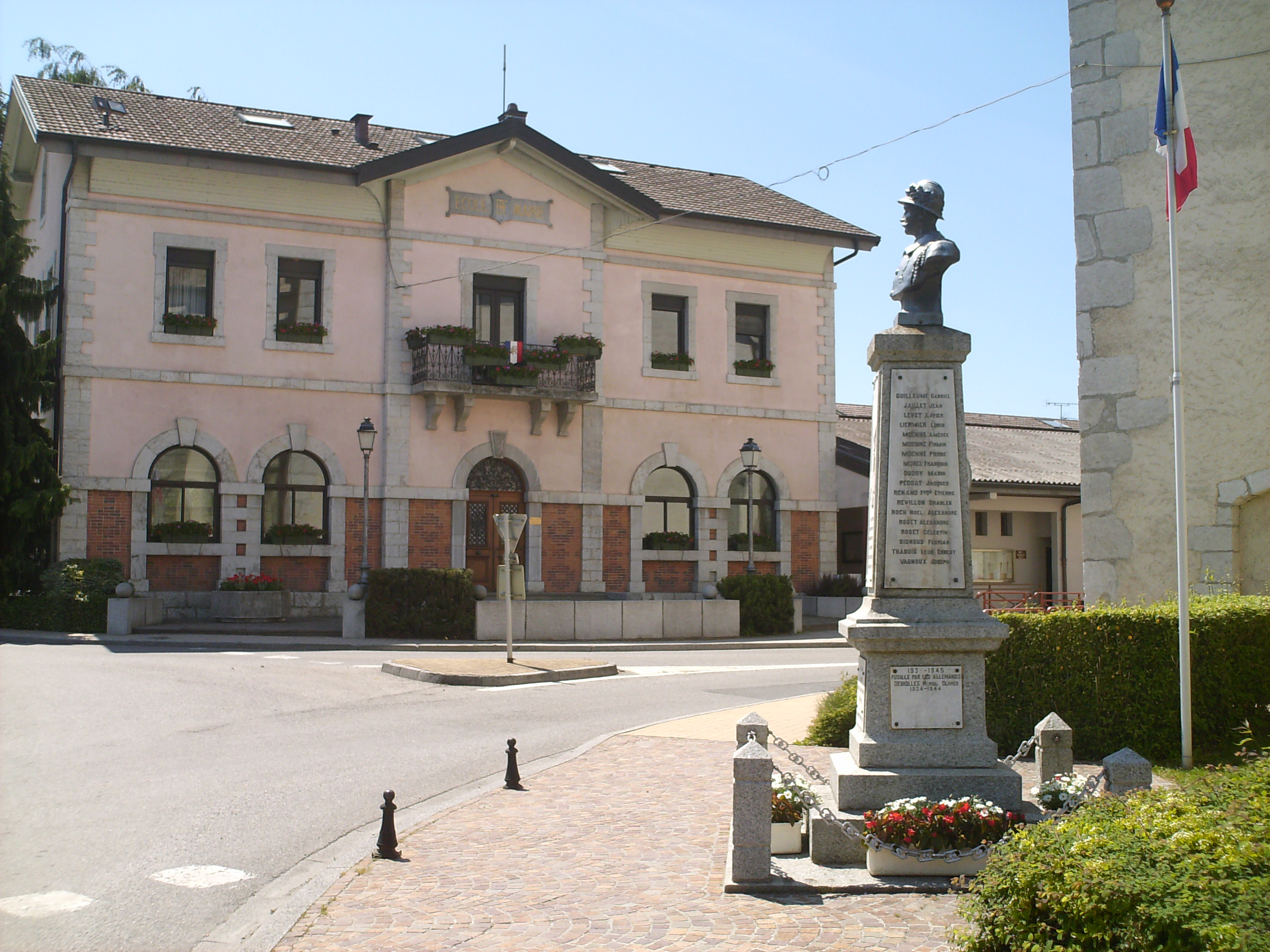 Amancy